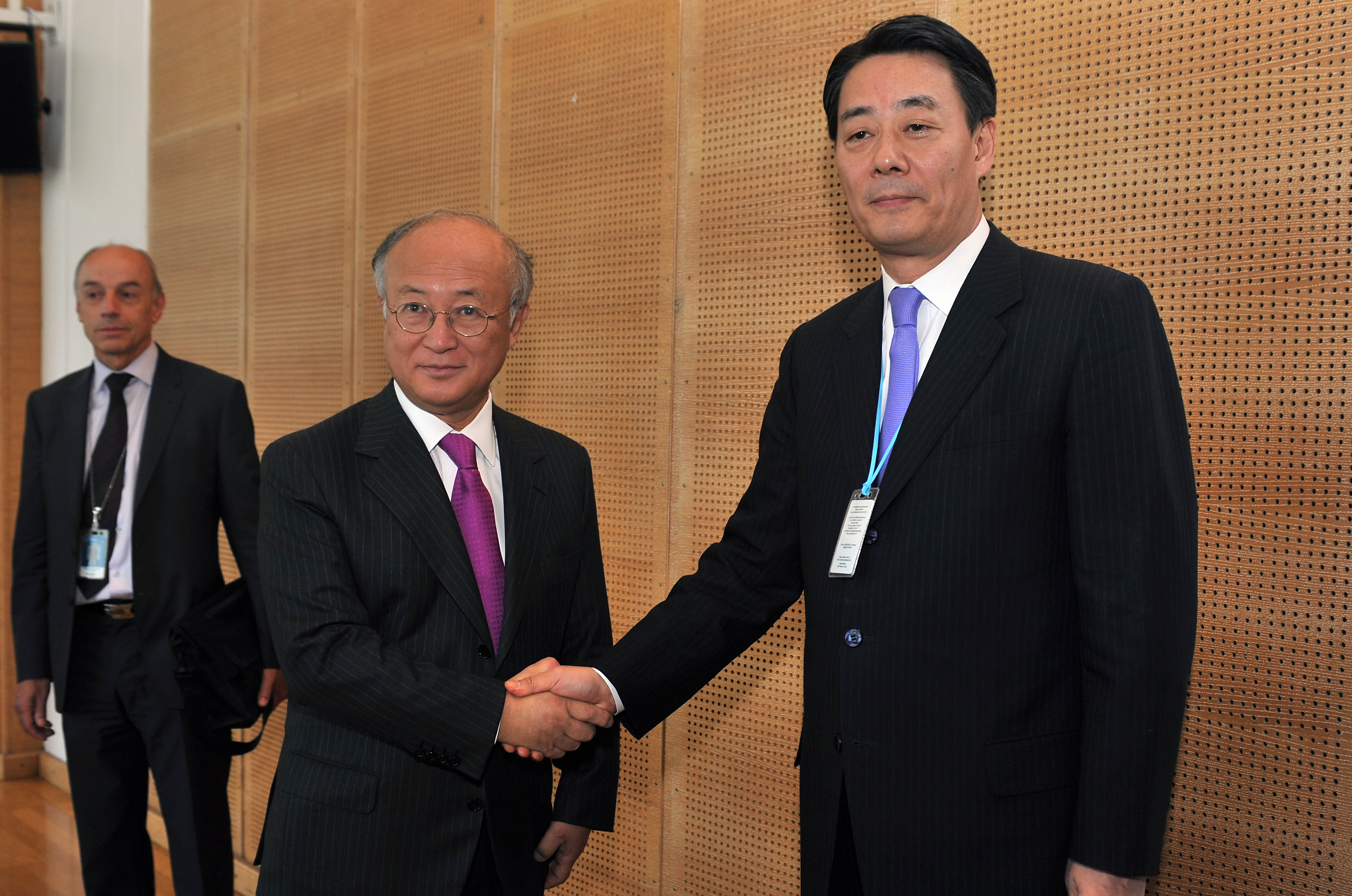 Banri Kaieda, Minister of Economy, Trade and Industry, met Yukiya Amano, Director General of the International Atomic Energy Agency, at the Ministerial Conference on Nuclear Safety in Vienna City, Vienna State on June 20, 2011.